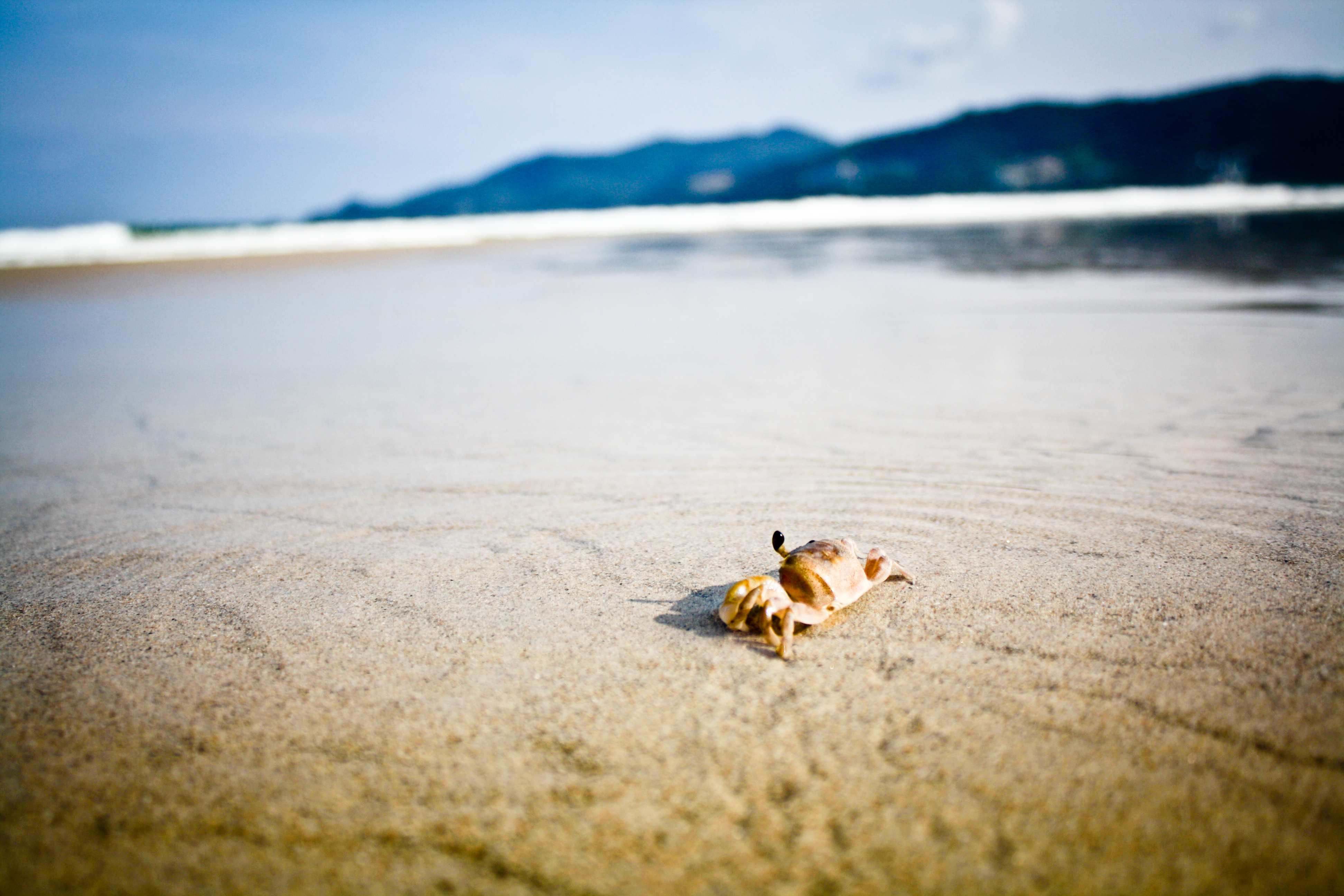 Phuket, Thailand